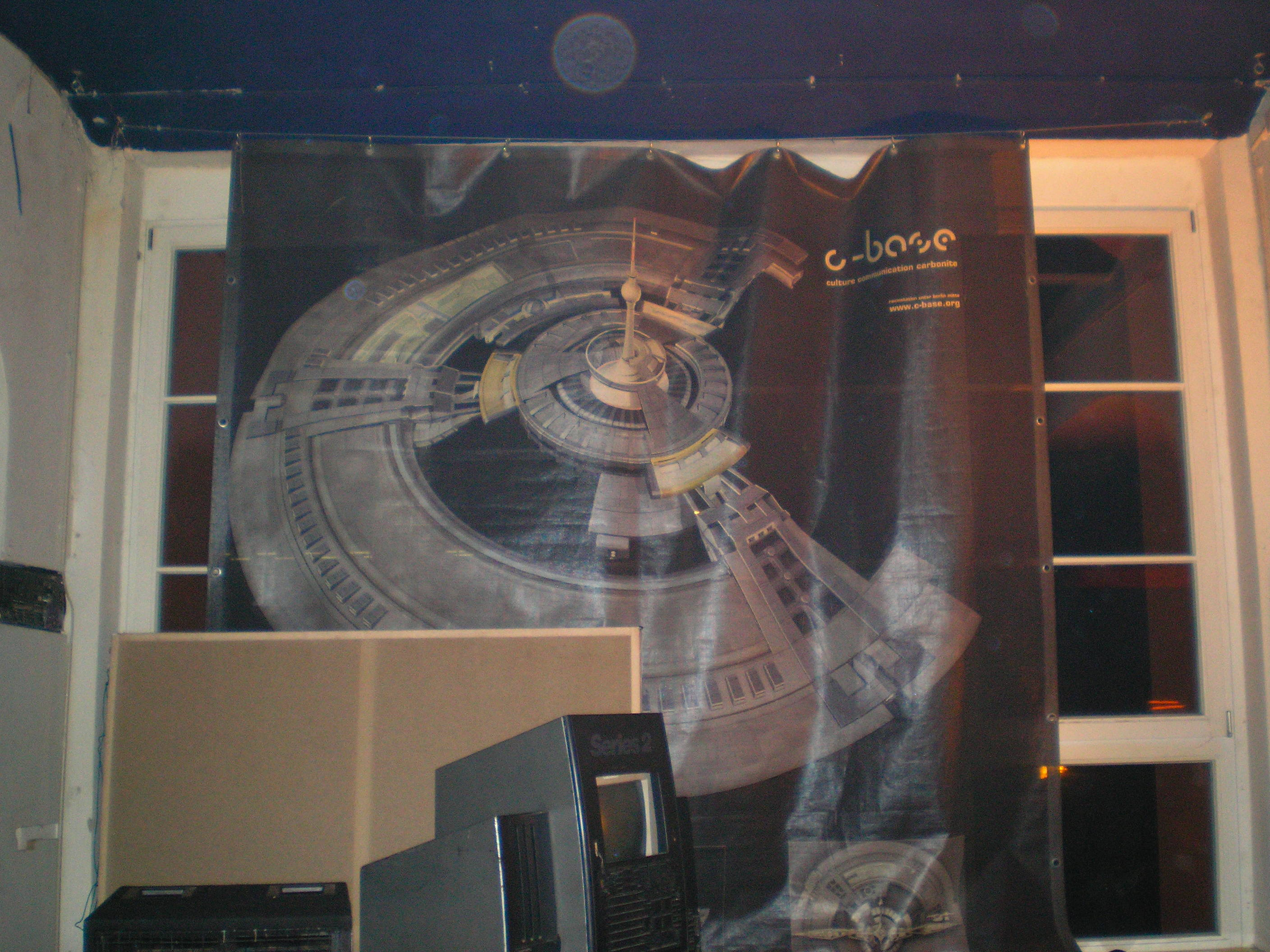 c-base space ship